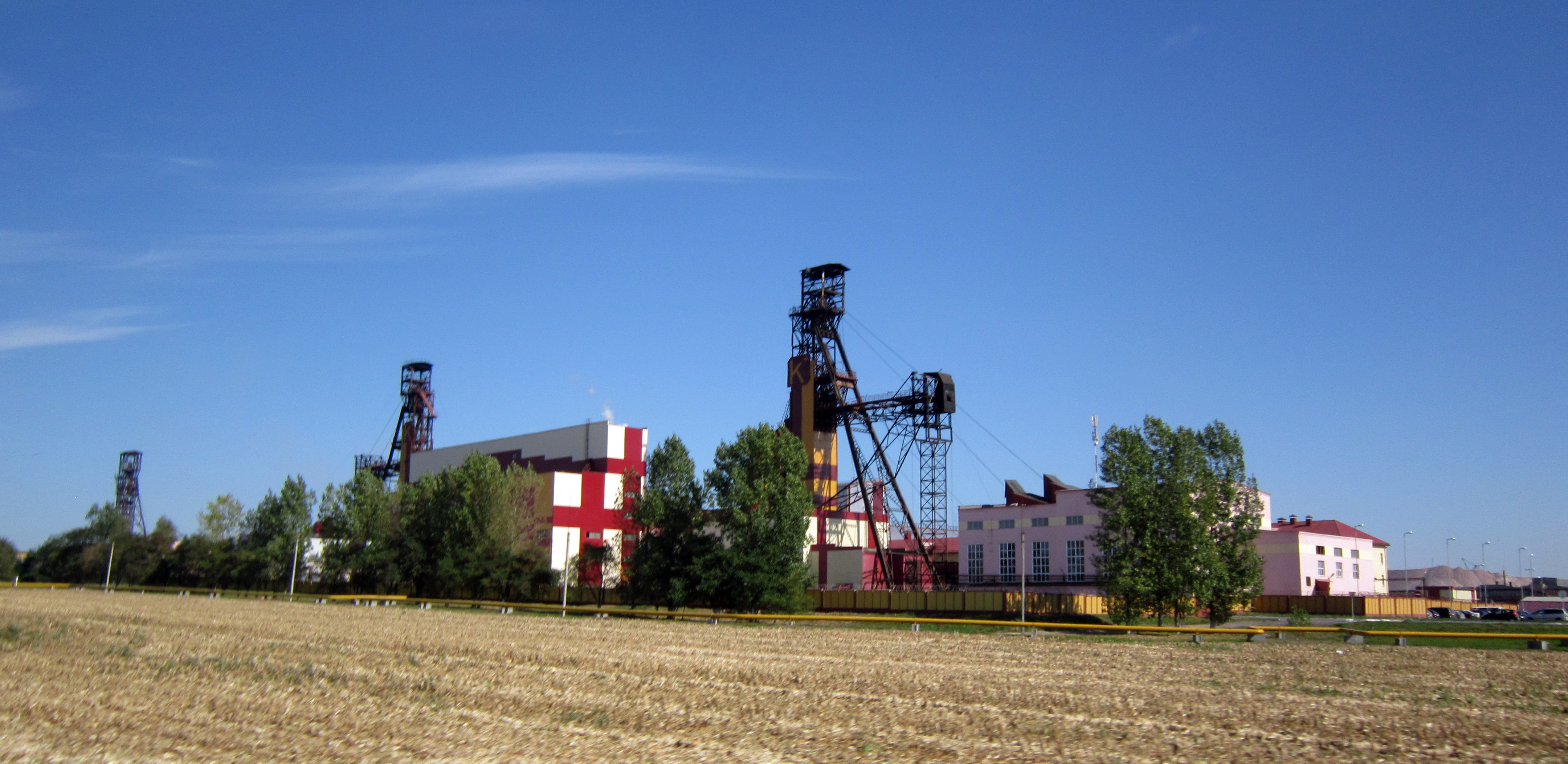 Potash Mine in Salihorsk (Soligorsk) in Belarus